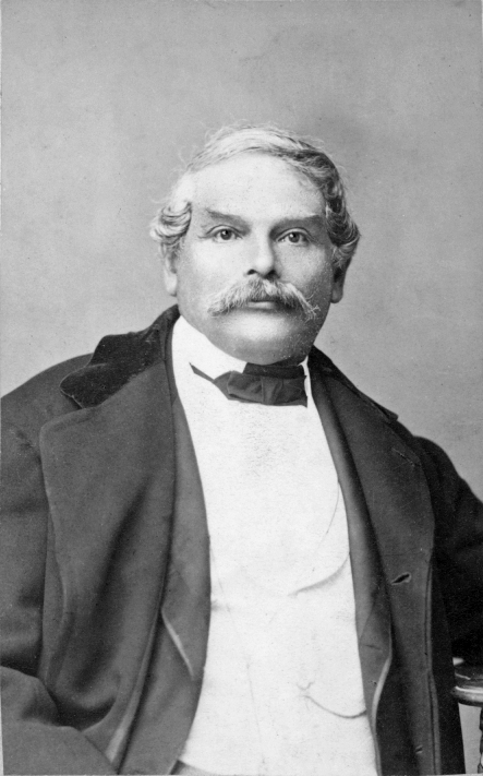 Eduard von Todesco (1814-1887), Viennese banker, industrialist and philanthropist.